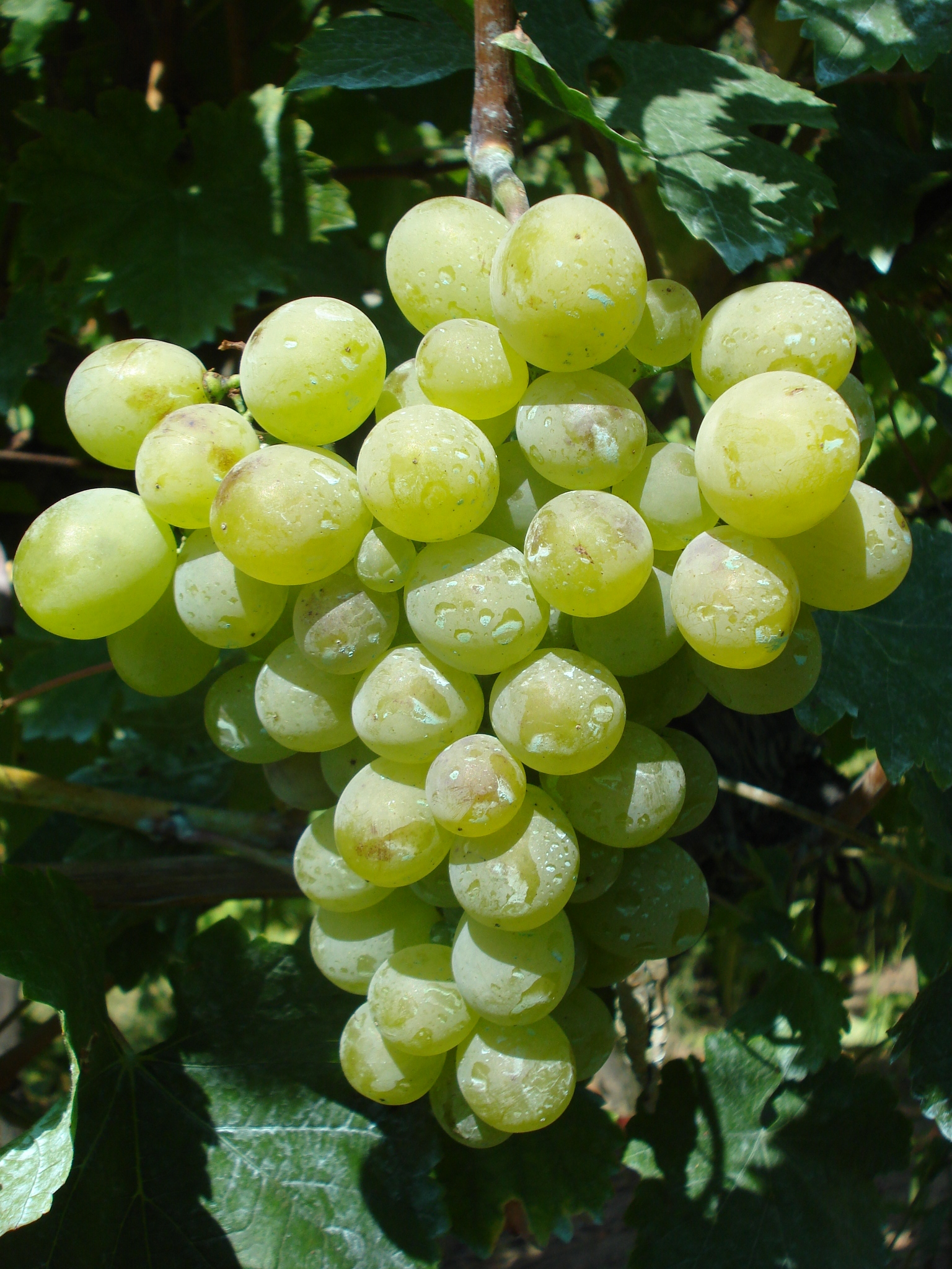 Muscat July white - early ripening table and wine grape variety, grown in Medjimurje County, northern Croatia